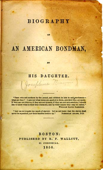 Title page of Biography of a Bondsman by his Daughter(Josephine Brown) published 1856